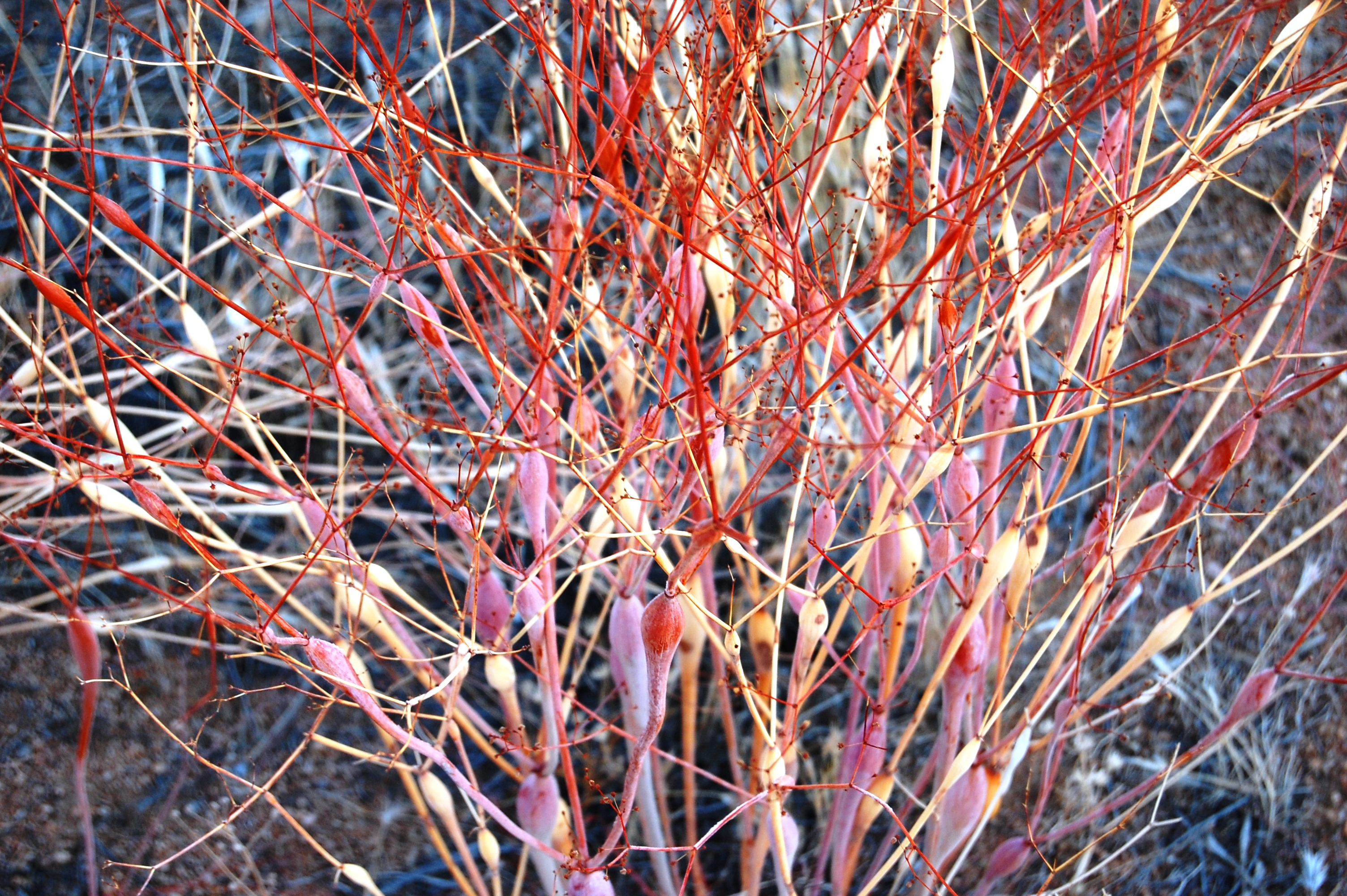 Desert Trumpet (Eriogonum inflatum) near Hidden Valley Campground in Joshua Tree National Park